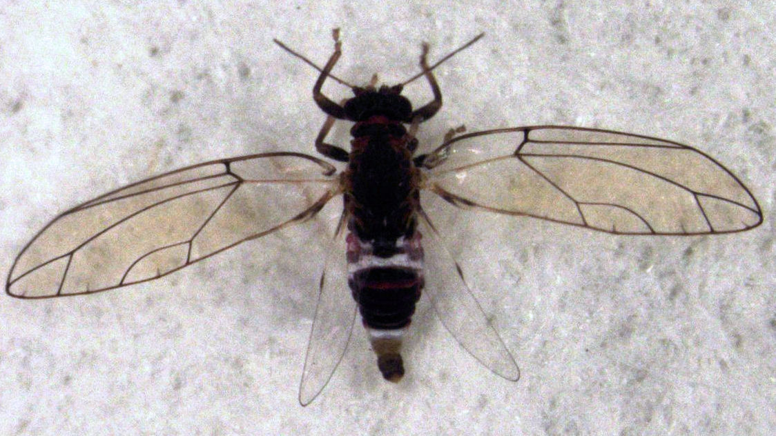 Trioza adventicia (male), body length about 2 mm, only one specimen seen